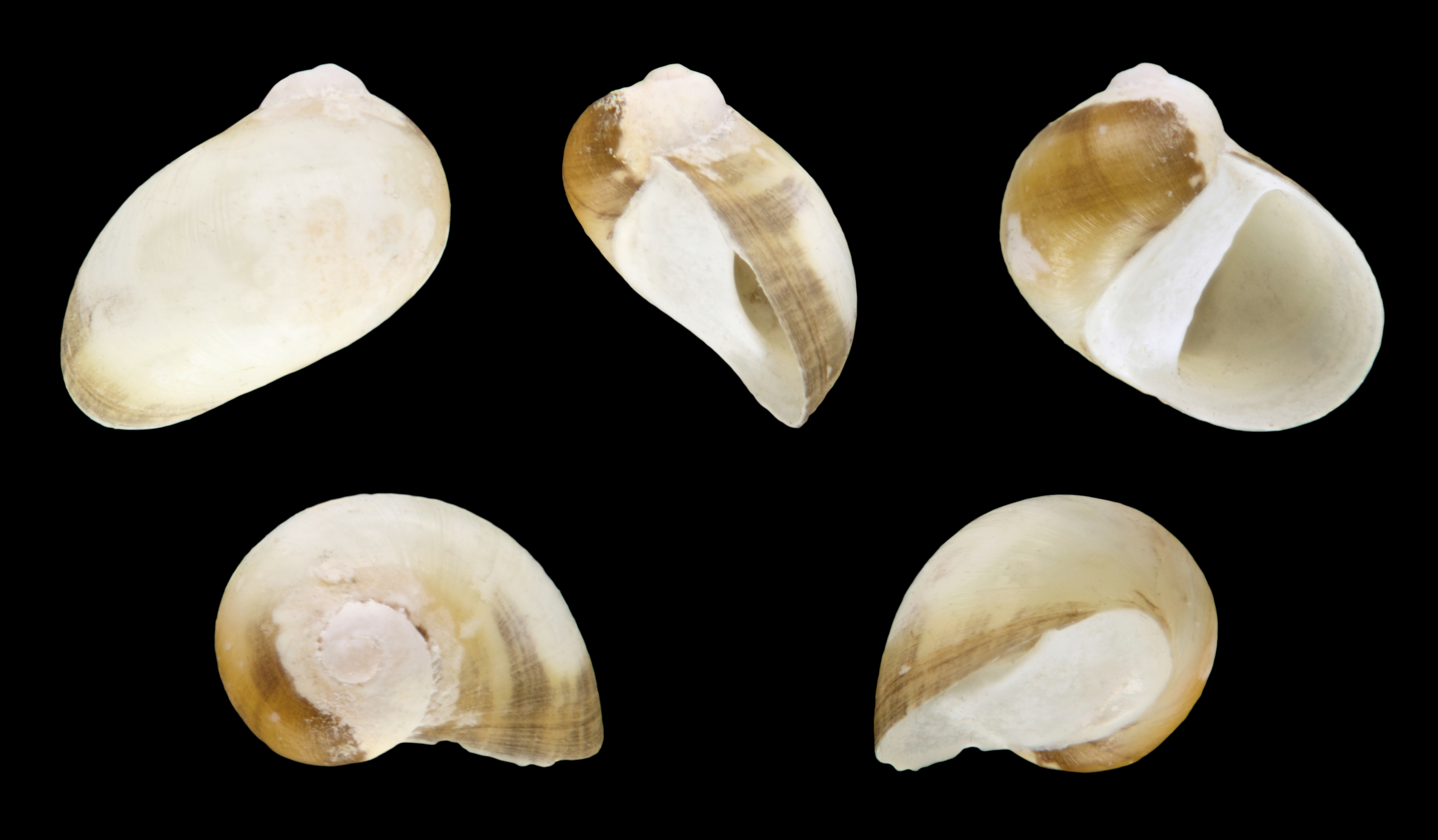 Theodoxus saulcyi (Bourguignat, 1852); Diameter 0.55 cm; Originating from the Lake Kournas, Crete, Greece. Shell of own collection, therefore not geocoded.